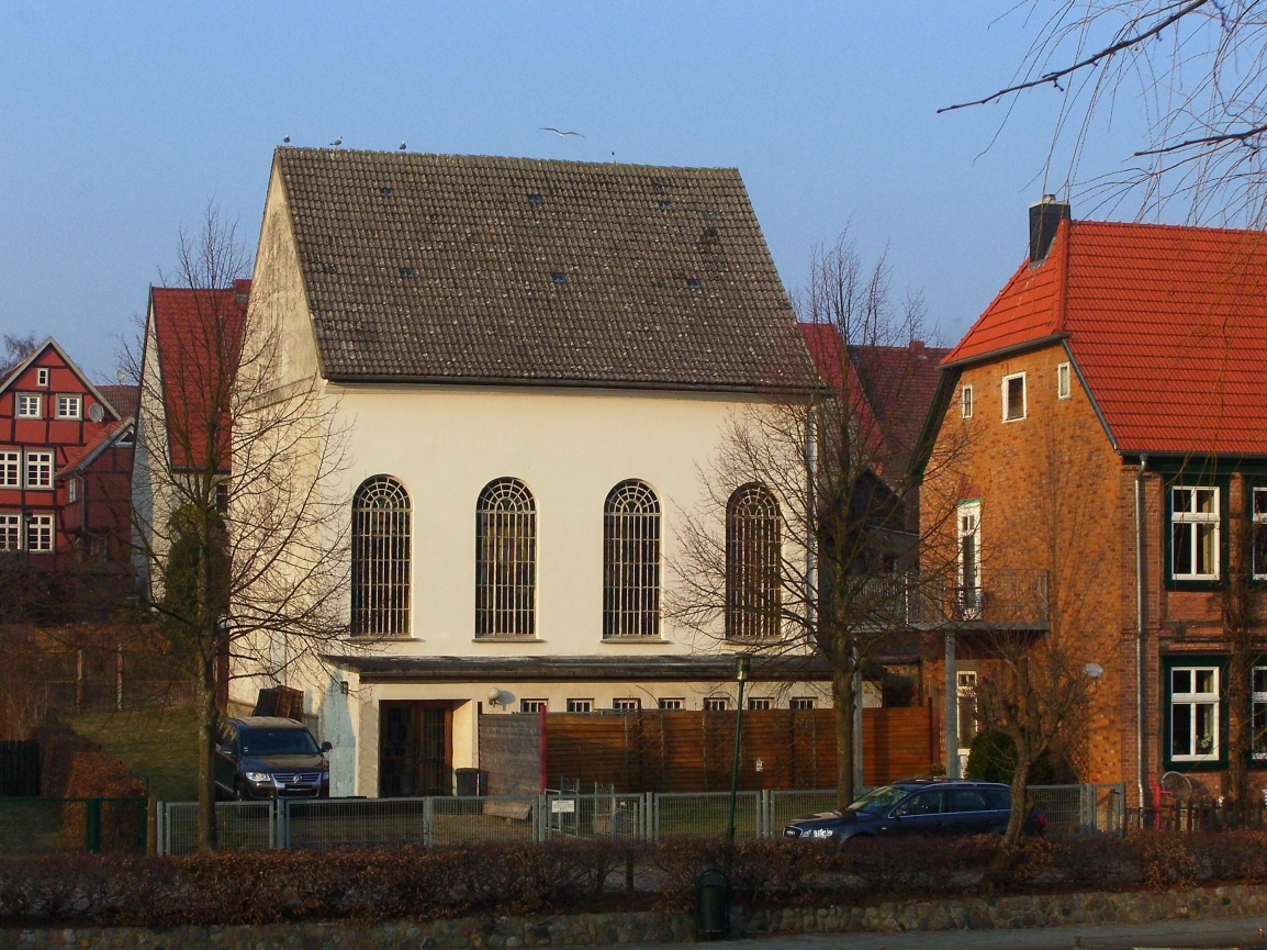 former Synagogue in Plau am See